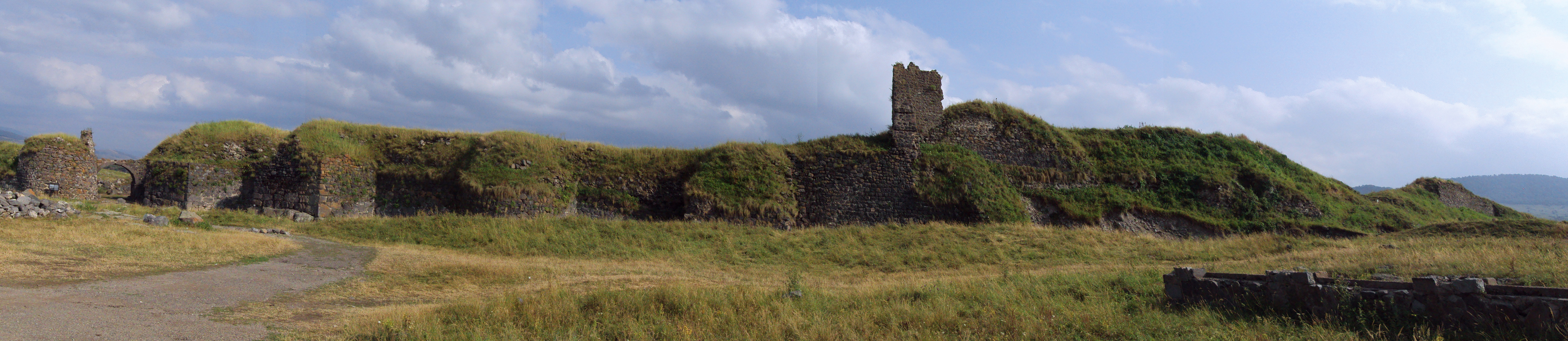 Lori Berd fortress's wall